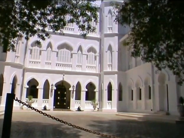 Djibouti presidential palace in 2012